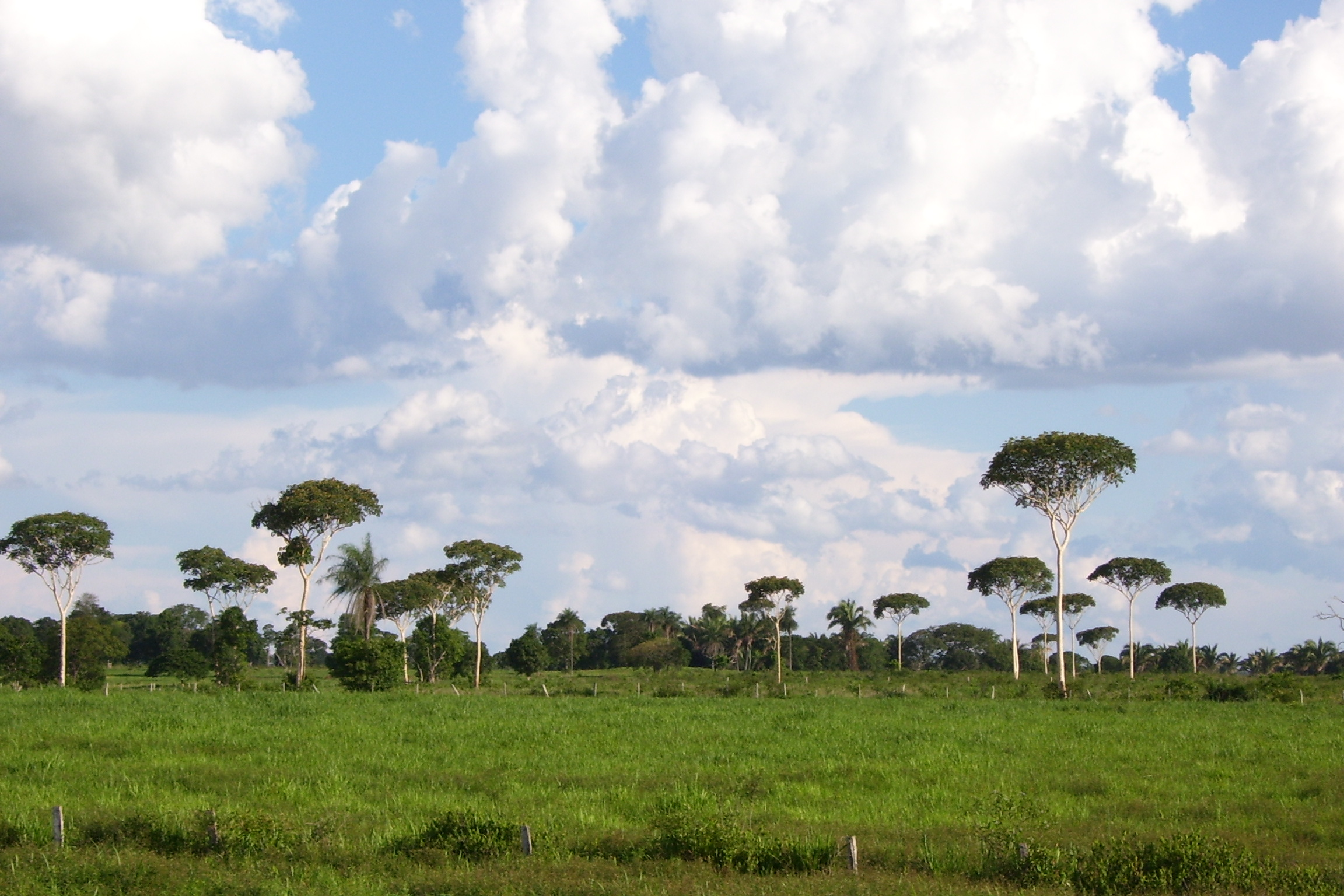 Schefflera morototoni syn. Didymopanax morototonii, in Mato Grosso, Brazil.